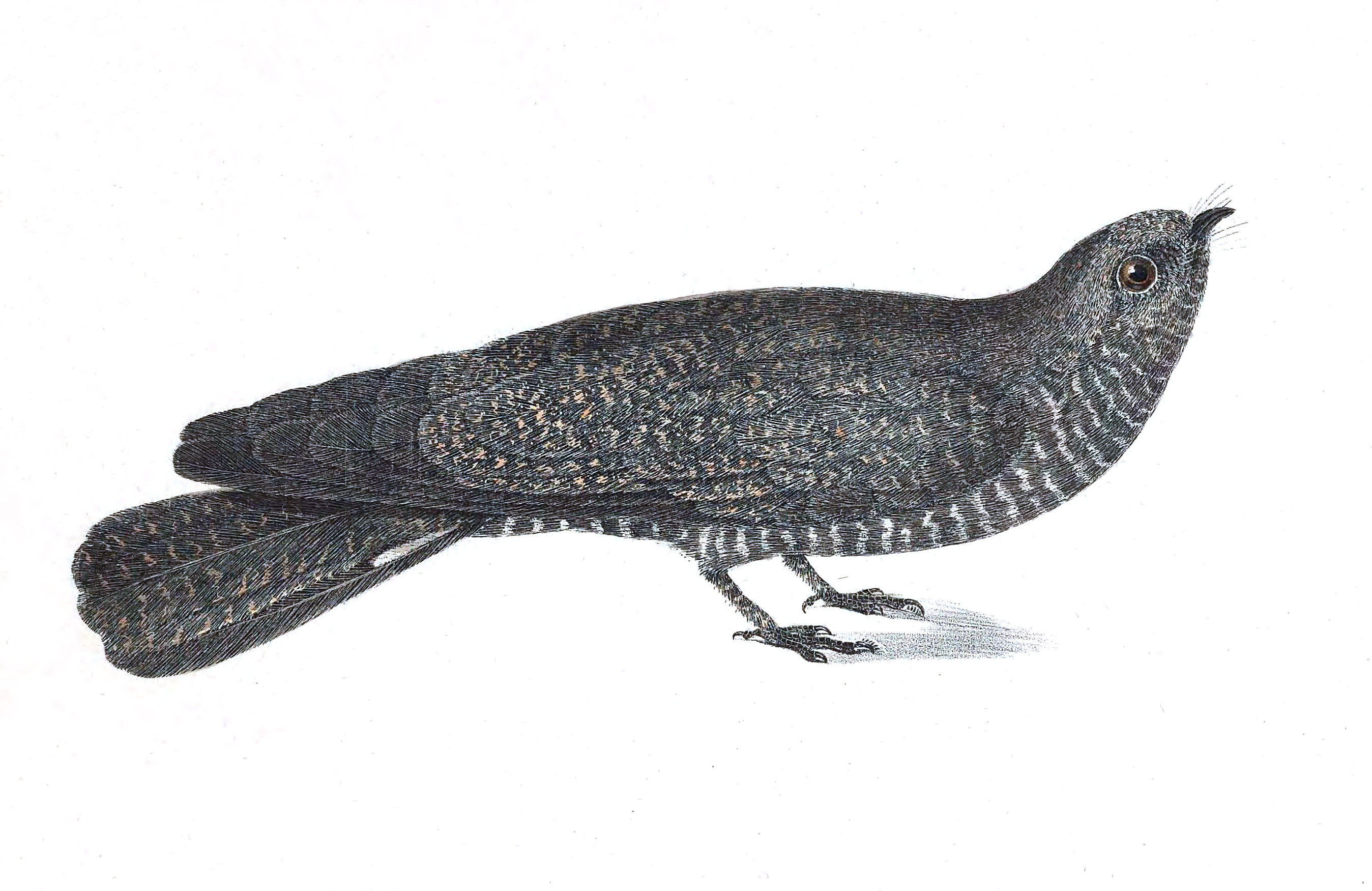 Caprimulgus leucopygus = Nyctiprogne leucopyga. Artwork by J. B. von Spix, 1825.